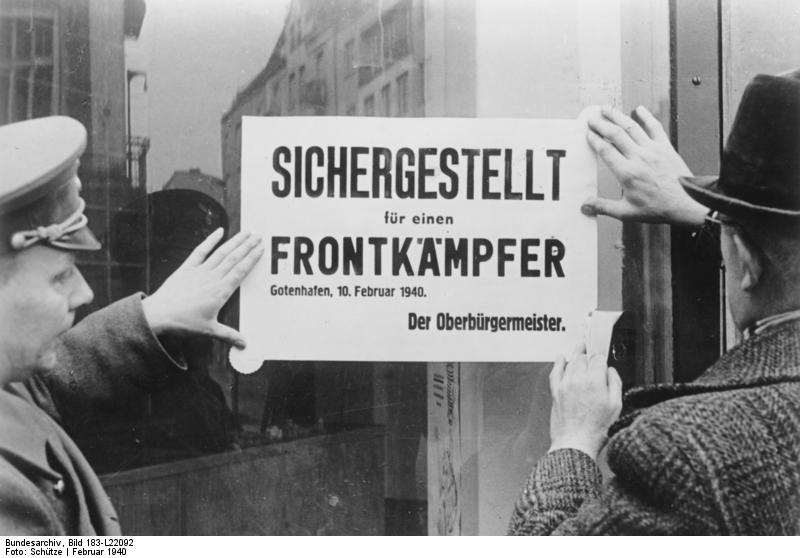 A sign being affixed to a shop window with the message "Seized for frontline combatants. Gotenhafen, 10 February 1940. Mayor." After the invasion of Poland by the German Wehrmacht in 1939, Polish shops in the port city of Gdynia (renamed "Gotenhafen" by the Nazis 1939–1945) were seized by the Germans.